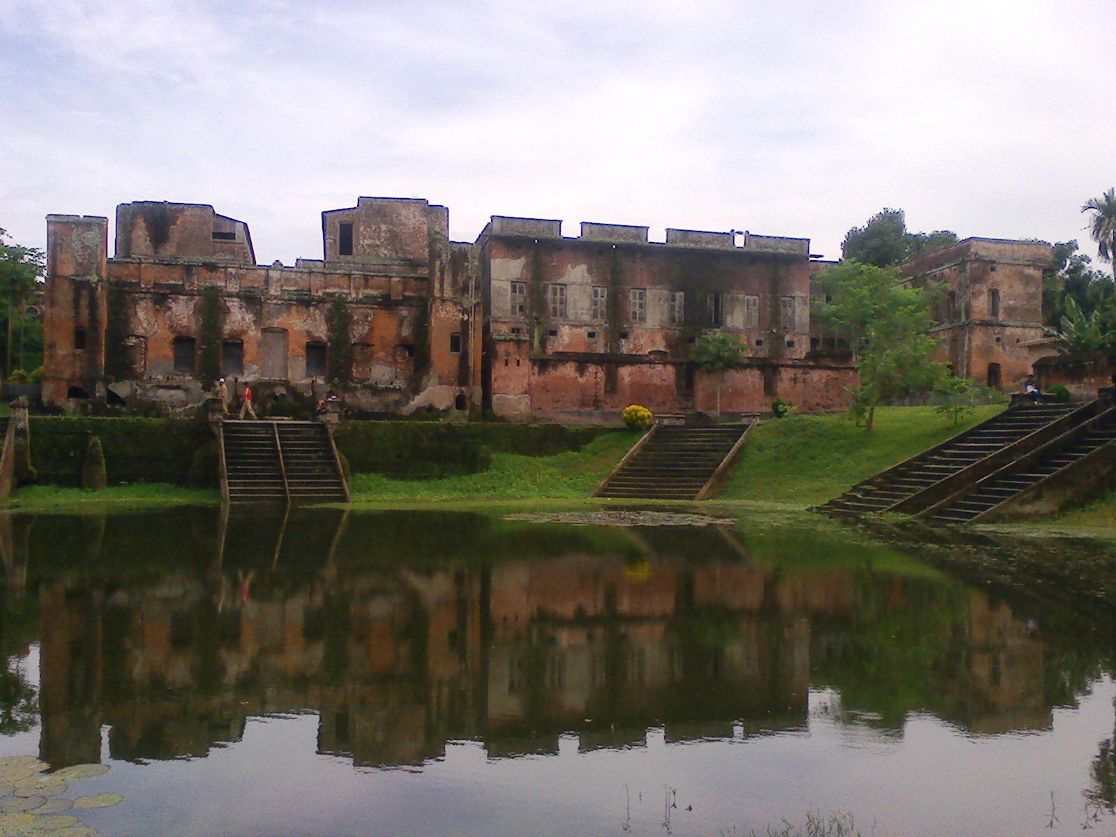 This is the image of the Baliati Palace Back side